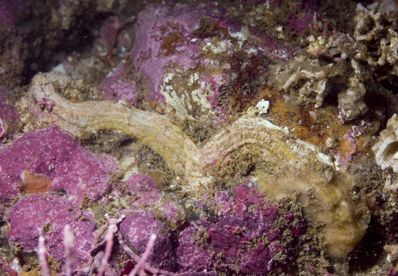 Scaled worm shell (Serpulorbis squamigerus) amongst the coralline algae